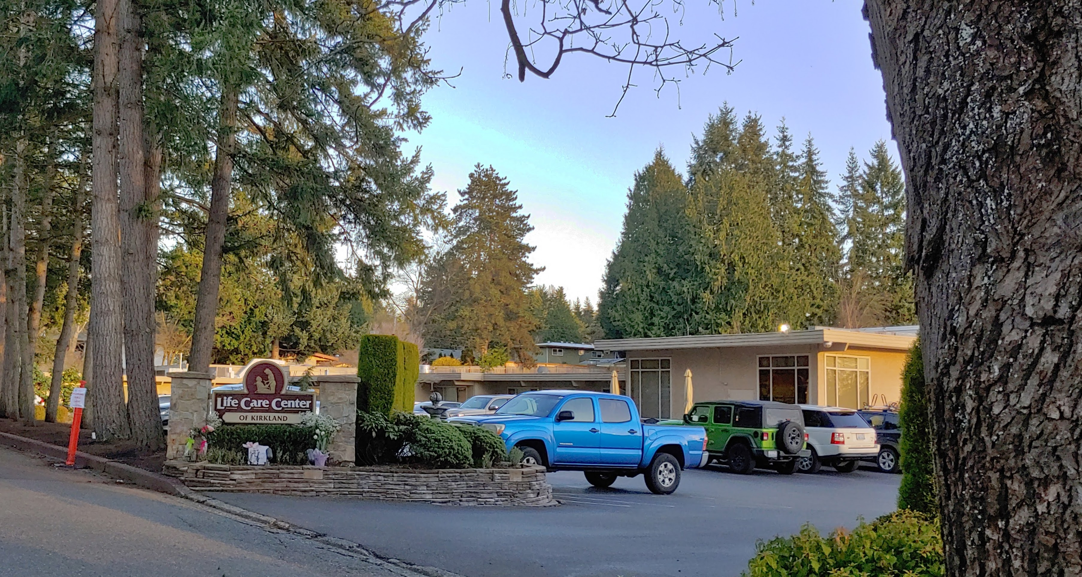 Life Care Center of Kirkland, a healthcare facility in the Juanita neighborhood of Kirkland, Washington, during the 2020 COVID-19 virus outbreak